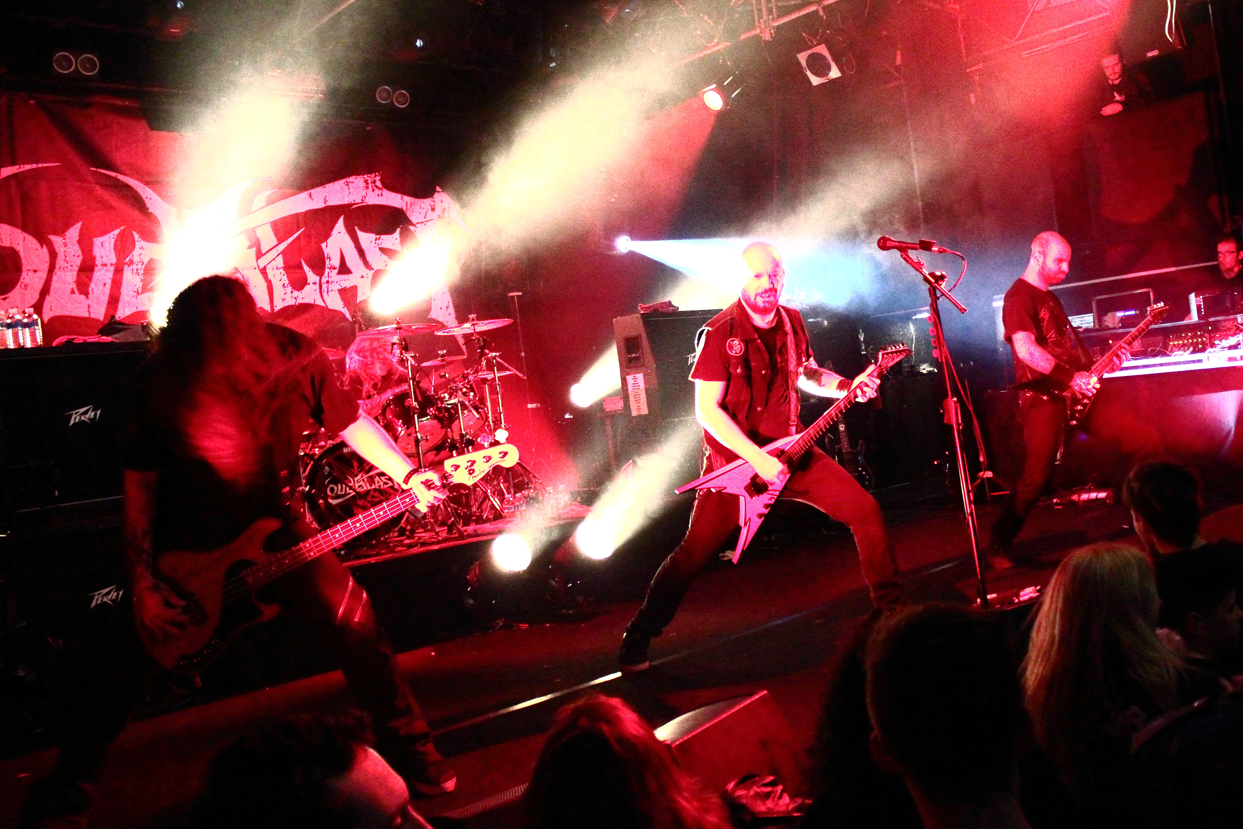 Concert de Loudblast au Confort Moderne - Poitiers, mars 2014. Flickr Tags: Confort Moderne Concert Poitiers Stage Musique Musicians Music Musicien Metal Heavy Metal Hard Rock Death Metal Trash Metal Stéphane Buriez Show Loudblast. from Flickr album "Le Confort Moderne" by Xi WEG from Poitiers, France